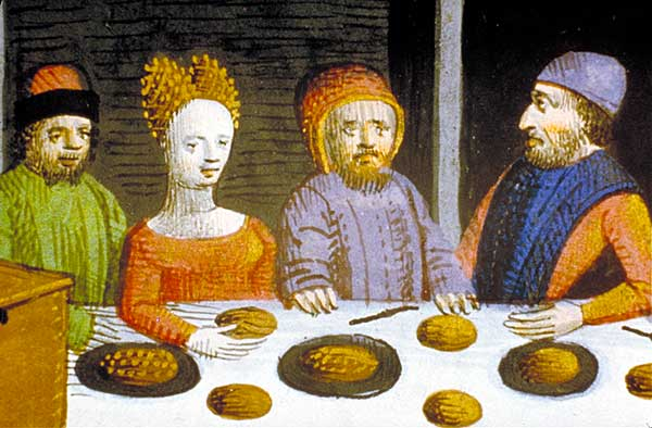 An early form of entremet consisting of frumenty, a type of grain porridge, and possibly colored with saffron (or egg yolk).